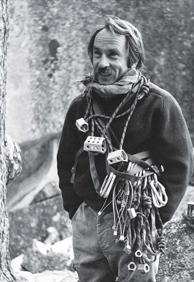 A photo of rock climber Yvon Chouinard. First published in Chouinard 1972 Catalog